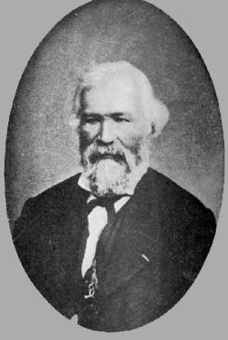 French botanist Louis-René Étienne Tulasne, known as Edmond Tulasne (1815-1885). Photograph originally from Curtis Gates Lloyd's "Mycological Notes" (1903).